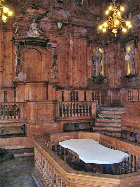 Anatomical theatre in the Archiginnasio (University of Bologna). Picture by Paolo Carboni (myself).